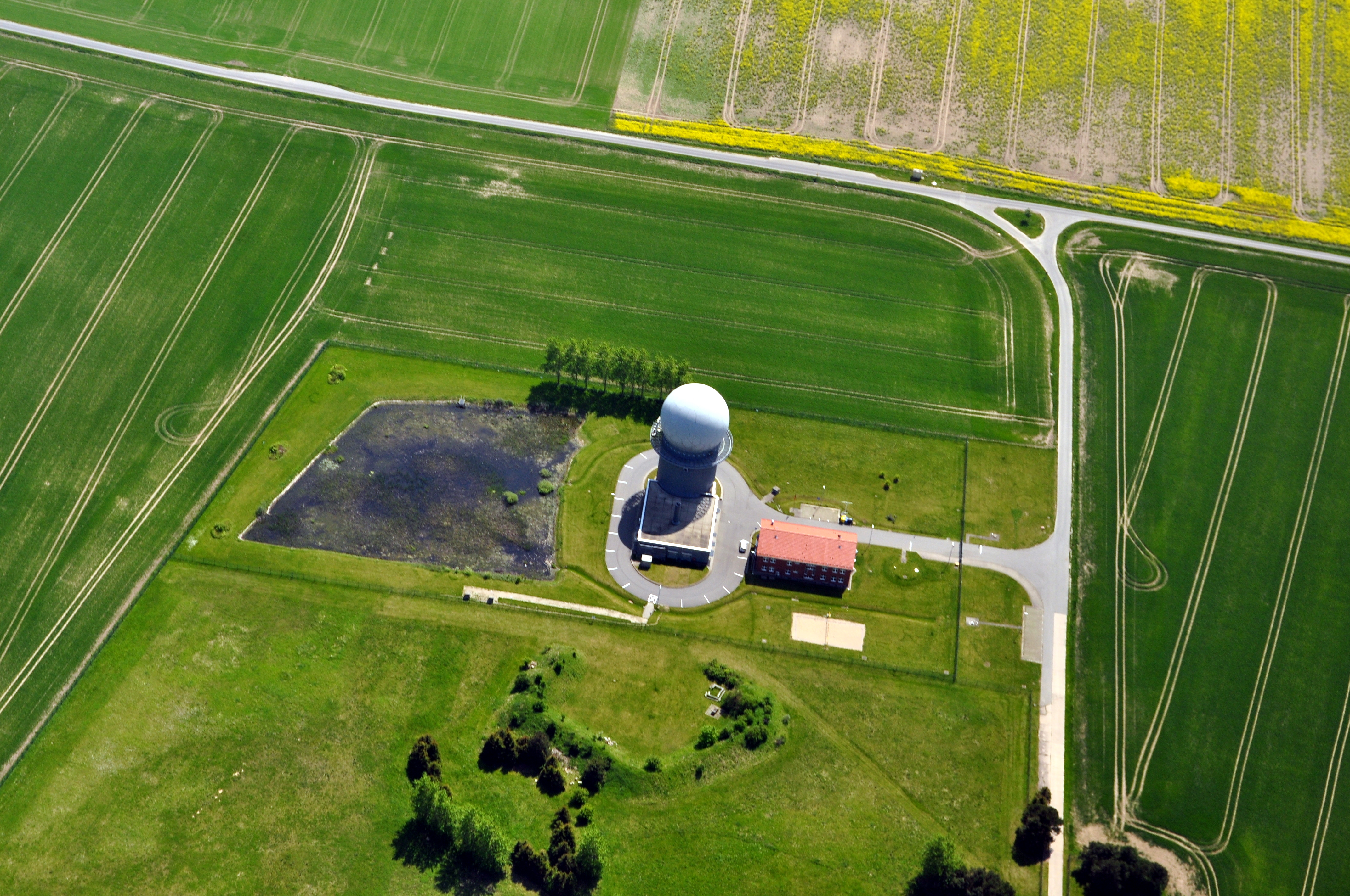 Radar tower of the Remote Technical Platoon 351 in Putgarten (Tactical Air Command and Control Service of the German Air Force). The Radome accommodates a RRP 117 sensor.